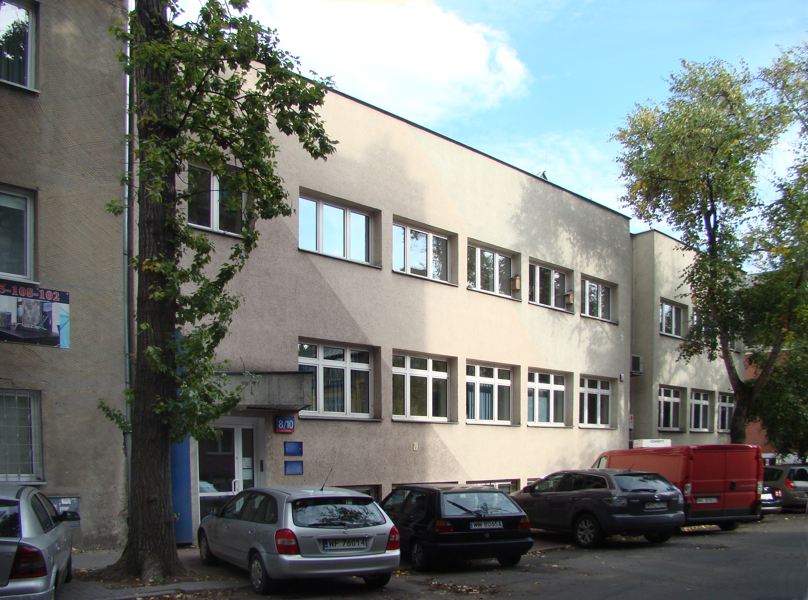 Tenement house, Warsaw, 8/10 Chocimska St., architect Lucjan Korngold 1938